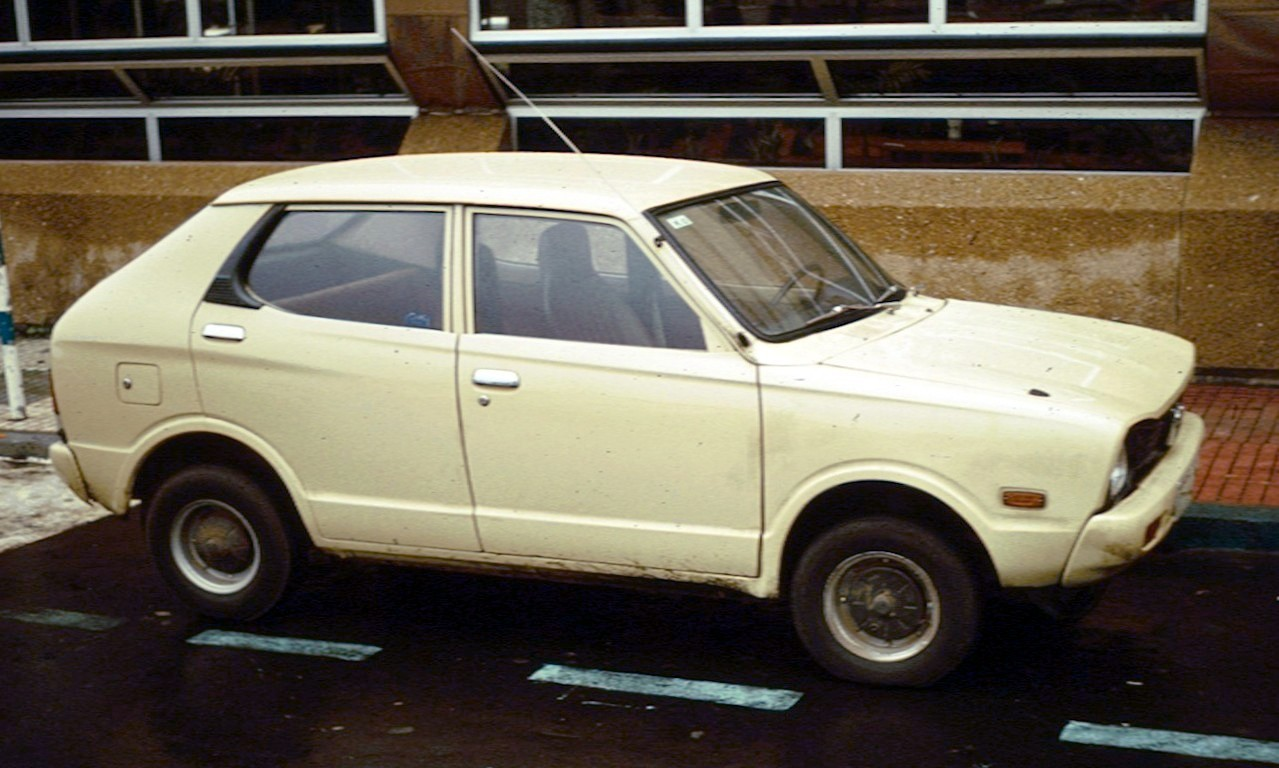 Unusual (at least unusual in Europe) Subaru Rex Kei car. This was labelled Subaru 500 or 600 in export, depending on whether a 490 or 544 cc engine was fitted.